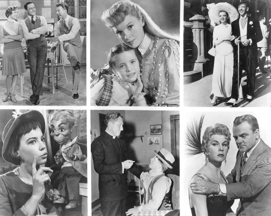 Composite publicity photo promoting the 1977 CBS airing of the 1974 compilation film That's Entertainment!.